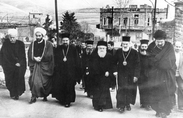 Visit of the South Help Staff from Marjayoun